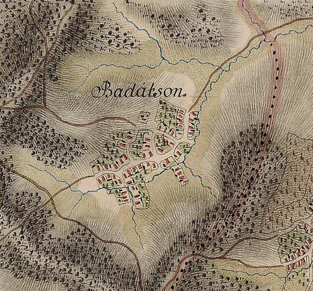 Bădăcin in the 18 century. Laurenţiu Man's lands and those of his descendants were located there